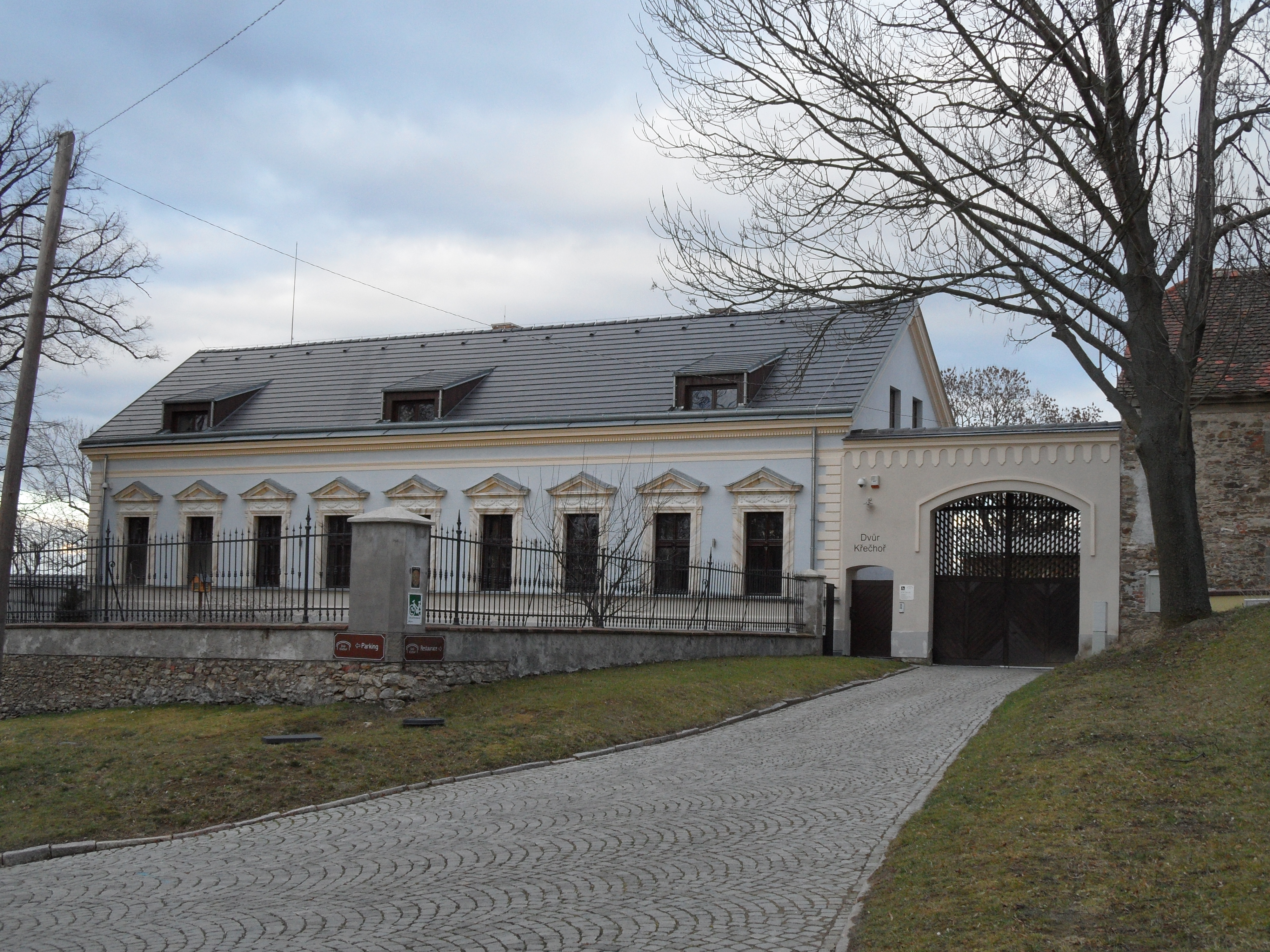 Křečhoř F. Dvůr Křečhor (now restaurant), Kutná Hora District, the Czech Republic.